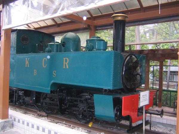 Kowloon-Canton Railway Bagnall locomotive No. 2227 Author: Gwernol